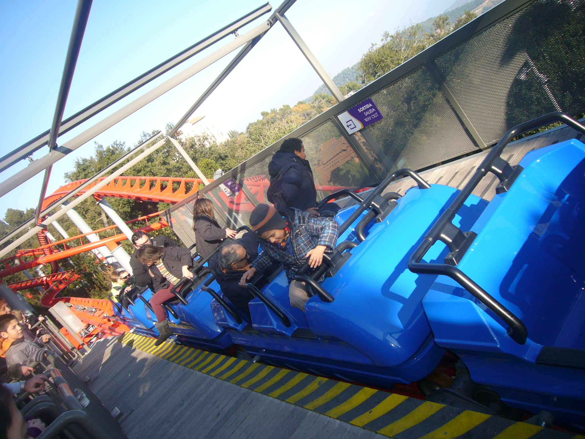 Roller coaster at the Tibidabo amusement park